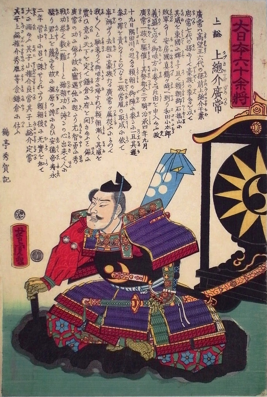 An ukiyo-e of Kazusanosuke Hirotsune.